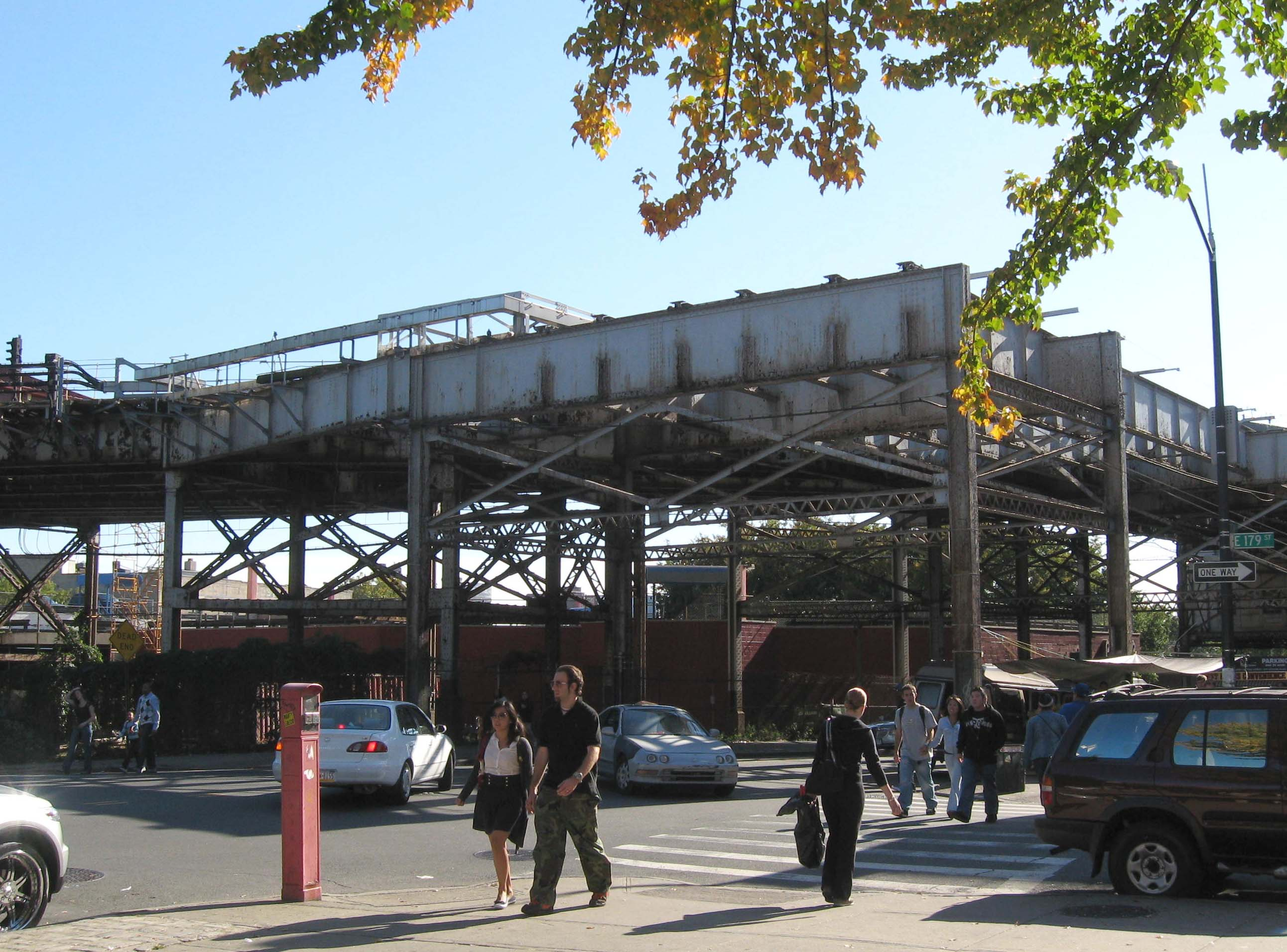 Looking south down Boston Road at stub of IRT elevated line that formerly led to 180th Street–Bronx Park (IRT White Plains Road Line).